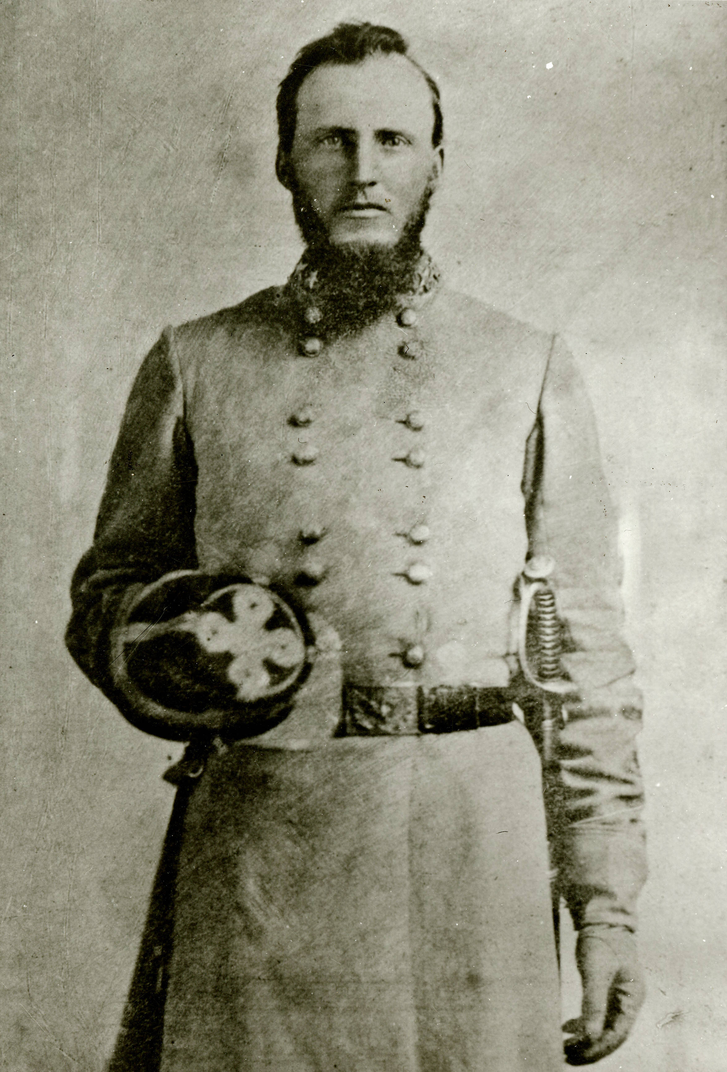 Brigadier General Francis Marion Cockrell, January 1864, Mobile, Alabama. The State Historical Society of Missouri